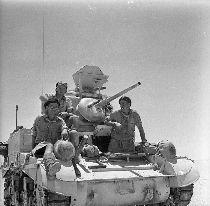 Soldiers of the New Zealand Divisional Cavalry on a Stuart tank at El Alamein, Egypt, 16 July, 1942. Left to right: Derek Tatton (radio operator), Cliff Davis (gunner), Harry Spencer (driver). Absent: Jack Riddell (commander) - later killed in action.